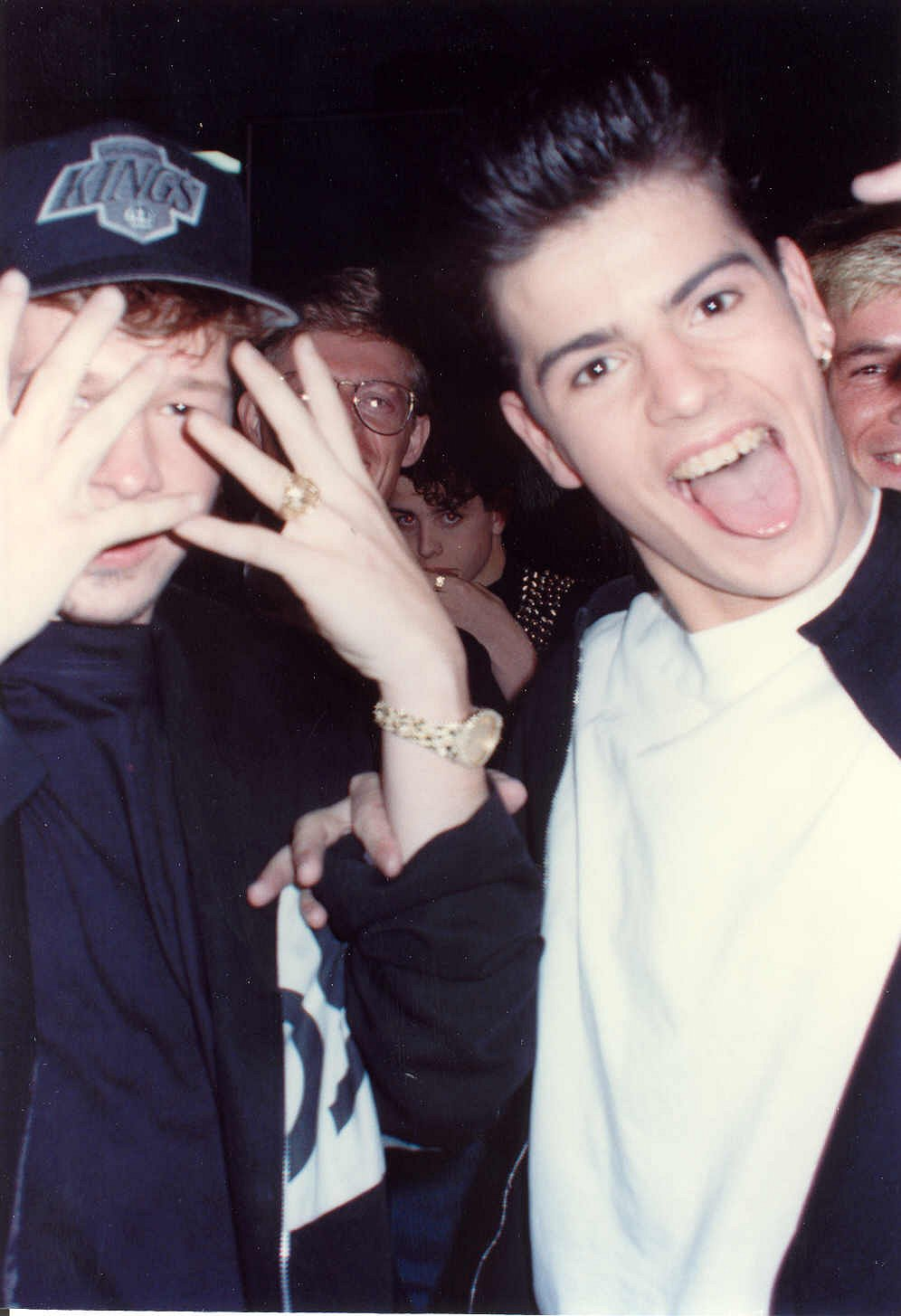 Grammy Awards - back stage during telecast - February, 1990.